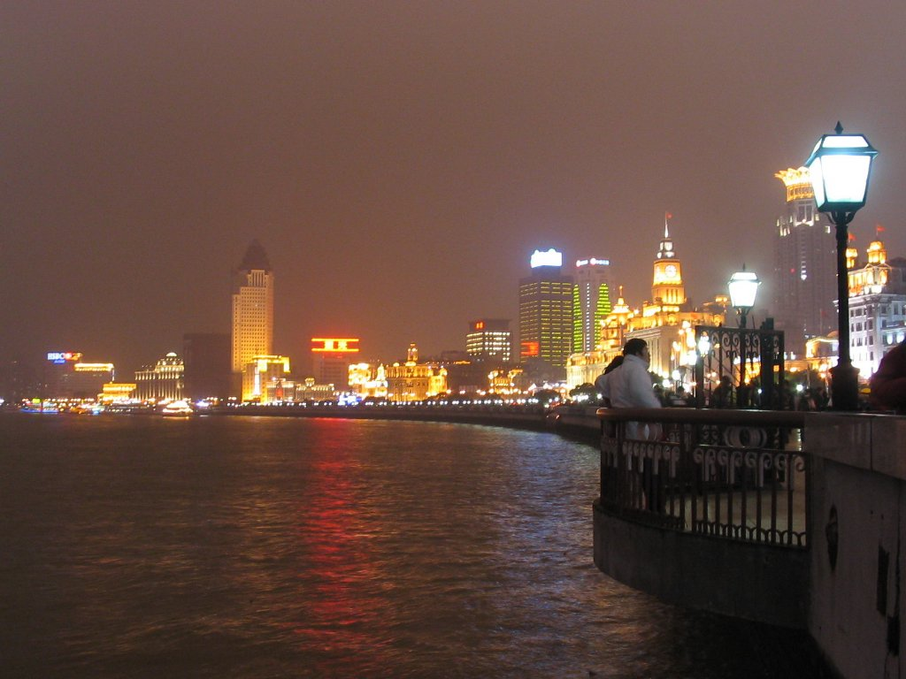 外灘夜景 The Bund at night